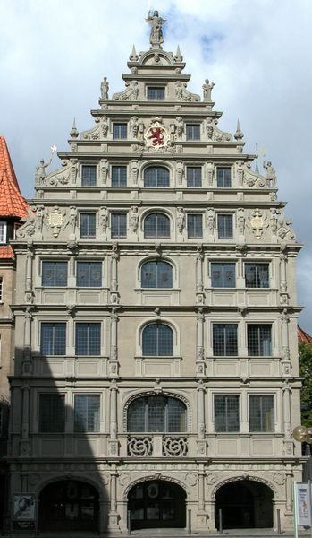 Brunswick, Germany: east façade of the Cloth Hall.